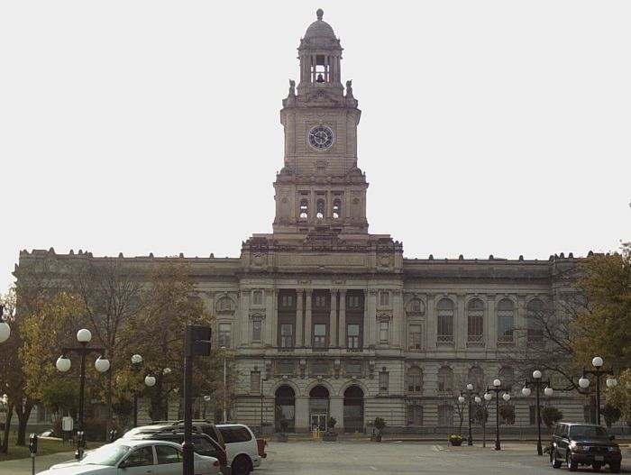 The Polk County Court House, in Des Moines.